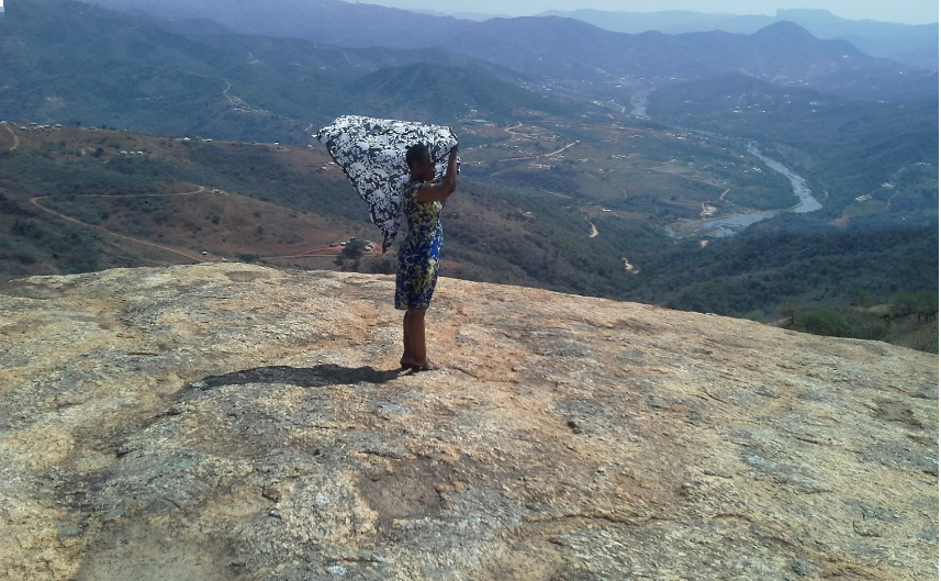 This is the top of Ntshenkombe and the top view of Umkomaas river.